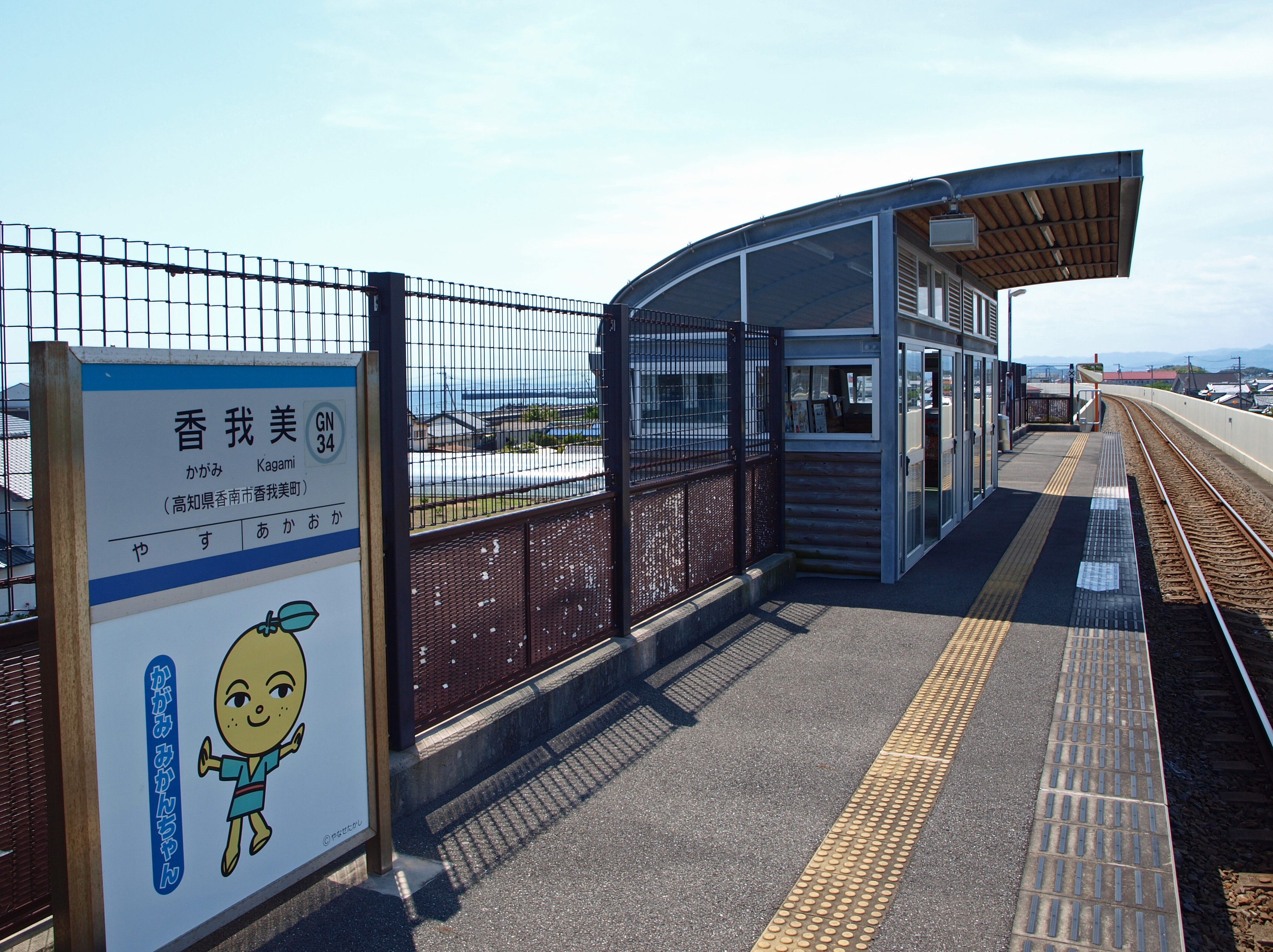 Kagami Station, Gomen-Nahari Line（Asa Line), Tosa Kuroshio Railway, Japan